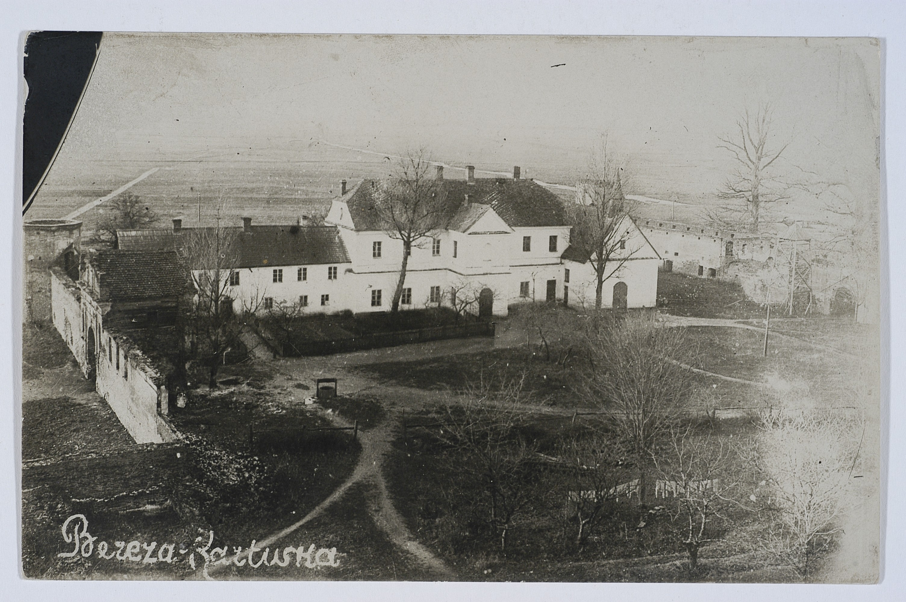 Monastery of Carthusians in Biaroza Kartuskaja